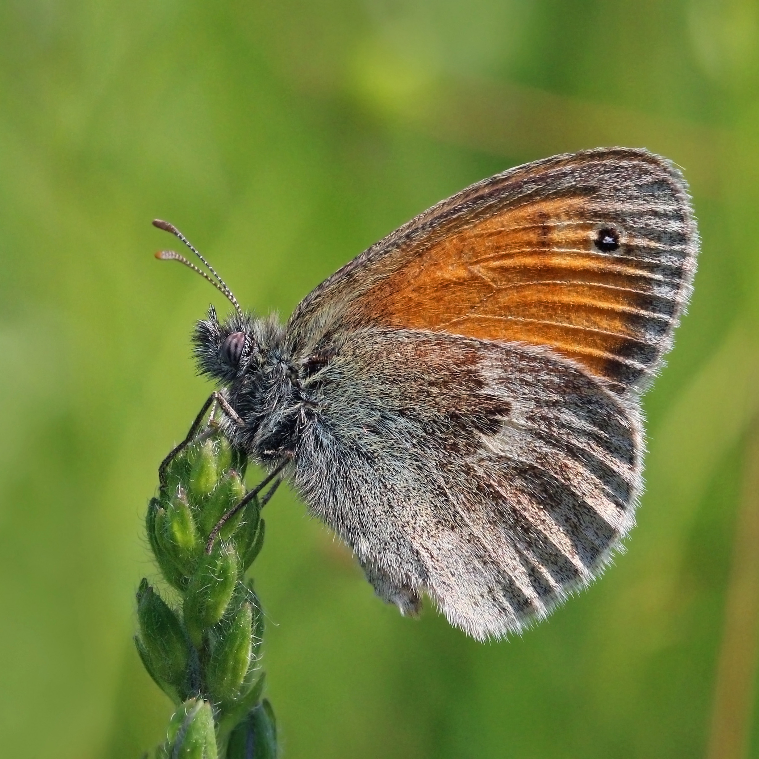 Small heath (Coenonympha pamphilus), Kampinos Forest, Poland. The small heath normally has white spots on the underside of the hindwing. This specimen could therefore be aberration postobsoletissima.